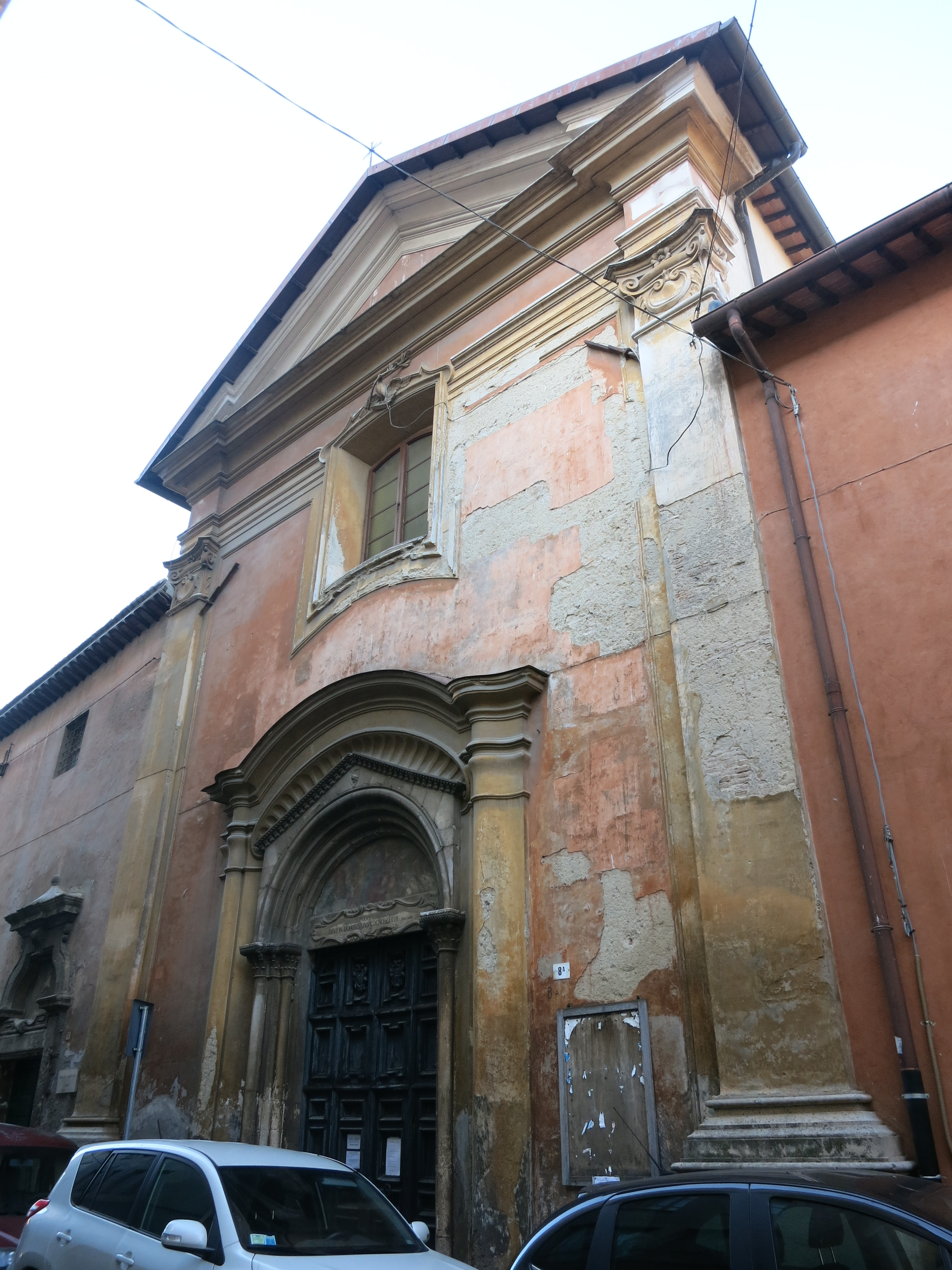 Saint Agnes church - Rieti, Lazio, Italy